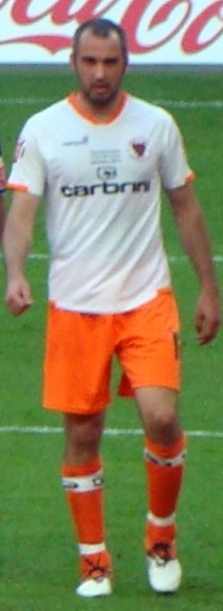 Gary Taylor-Fletcher, cropped from Blackpool vs Cardiff corner